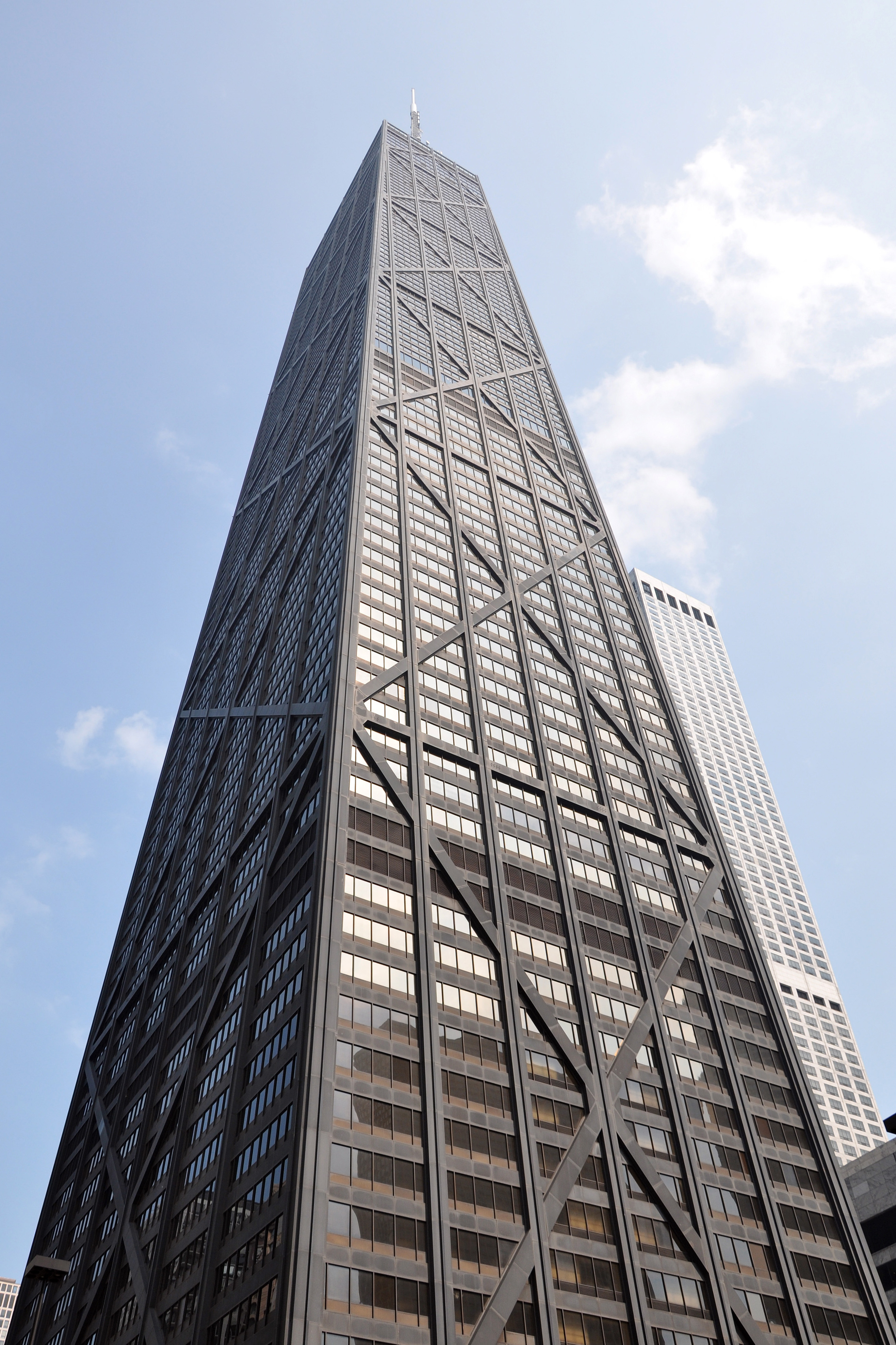 John Hancock Center in Chicago, Illinois, USA.